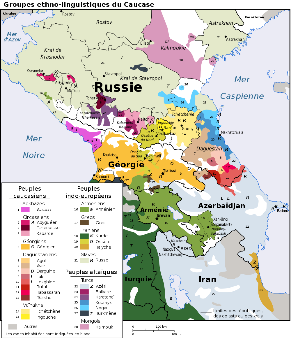 Ethnic Map Of Caucasus